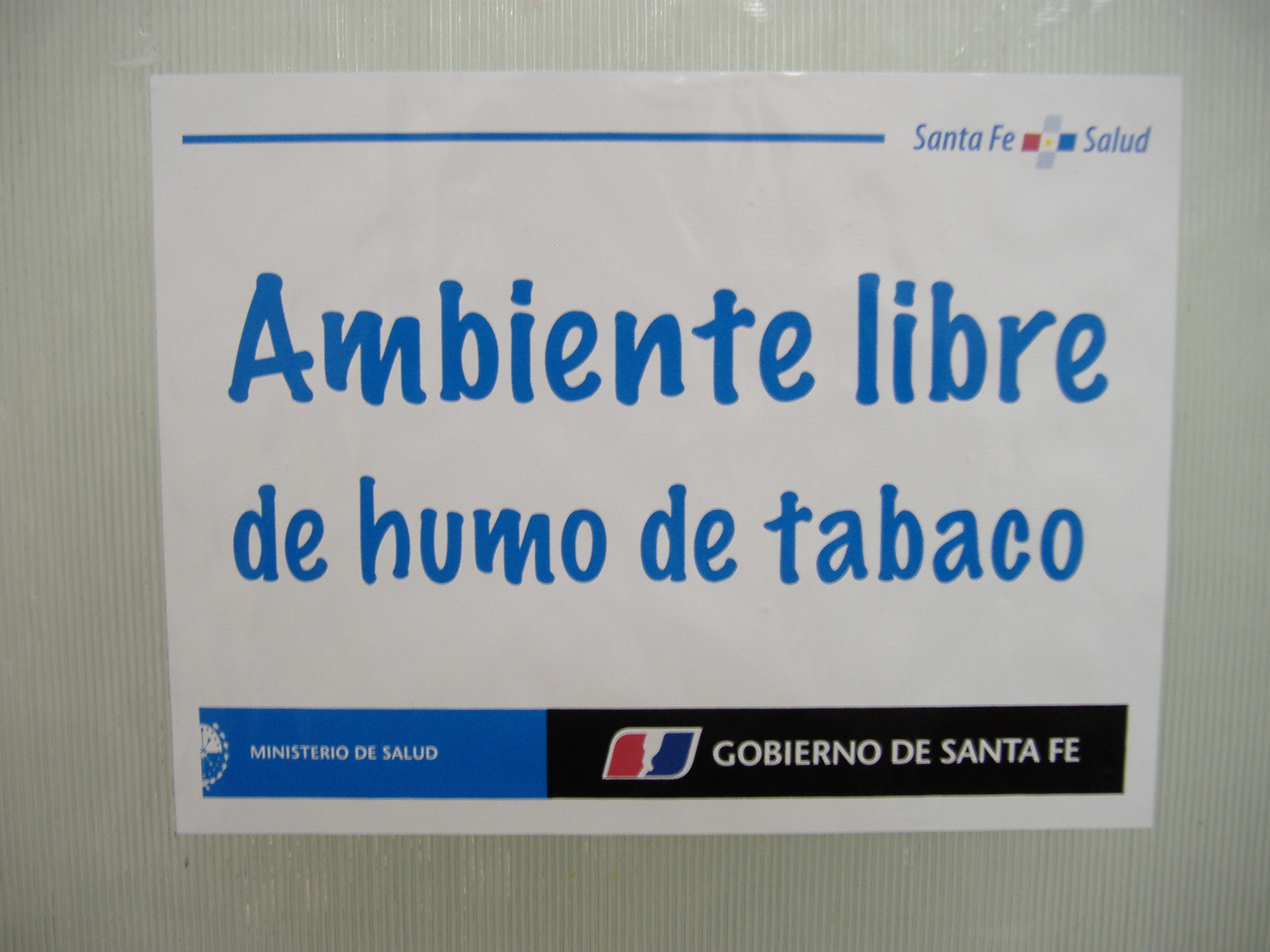 A sign that reads (in Spanish) Ambiente libre de humo de tabaco - "Tobacco smoke-free environment", on a public office building of the Government of the Province of Santa Fe in Rosario, Argentina.